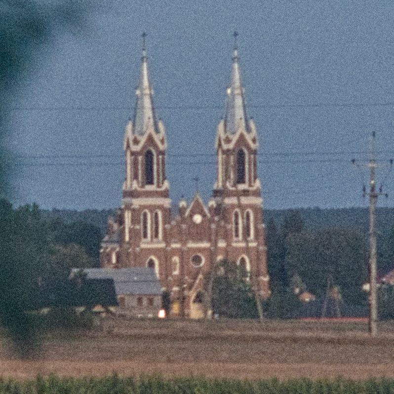 Care of St. Joseph, St. Mary Magdalene and Guardian Angels church in Milejów, view from PKP Hutnik Intercity train